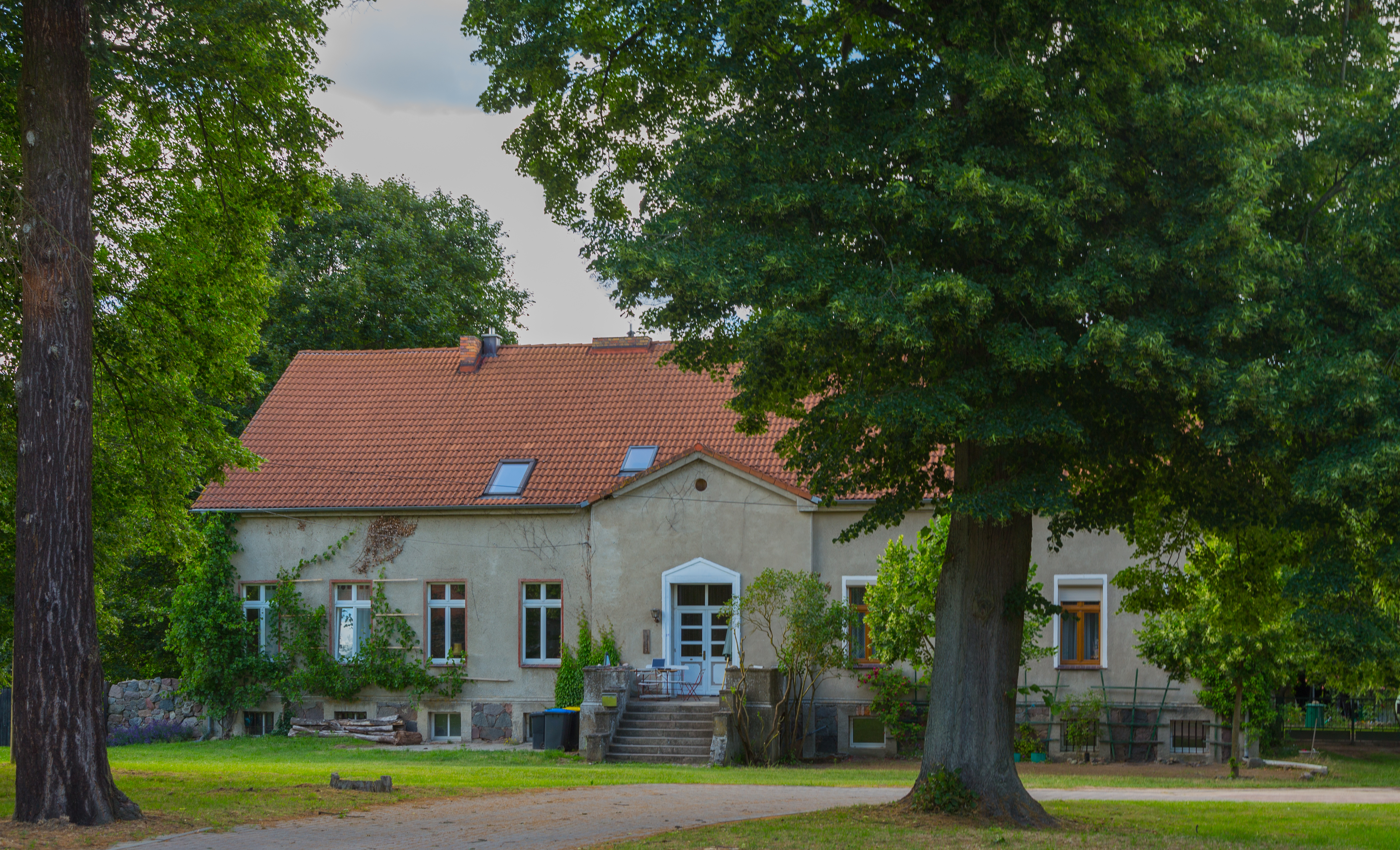 Haus in Willmine, einem Gemeindeteil von Gerswalde, Landkreis Uckermark, Brandenburg, Germany.